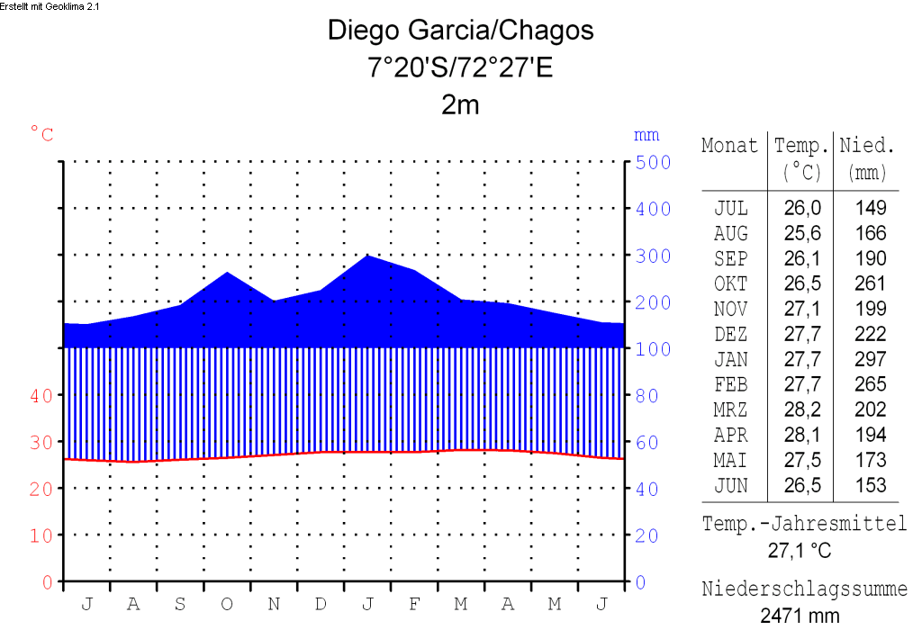 climate chart in the format by Walter and Lieth, metric, °Celsisus and millimeters, made with Geoklima 2.1